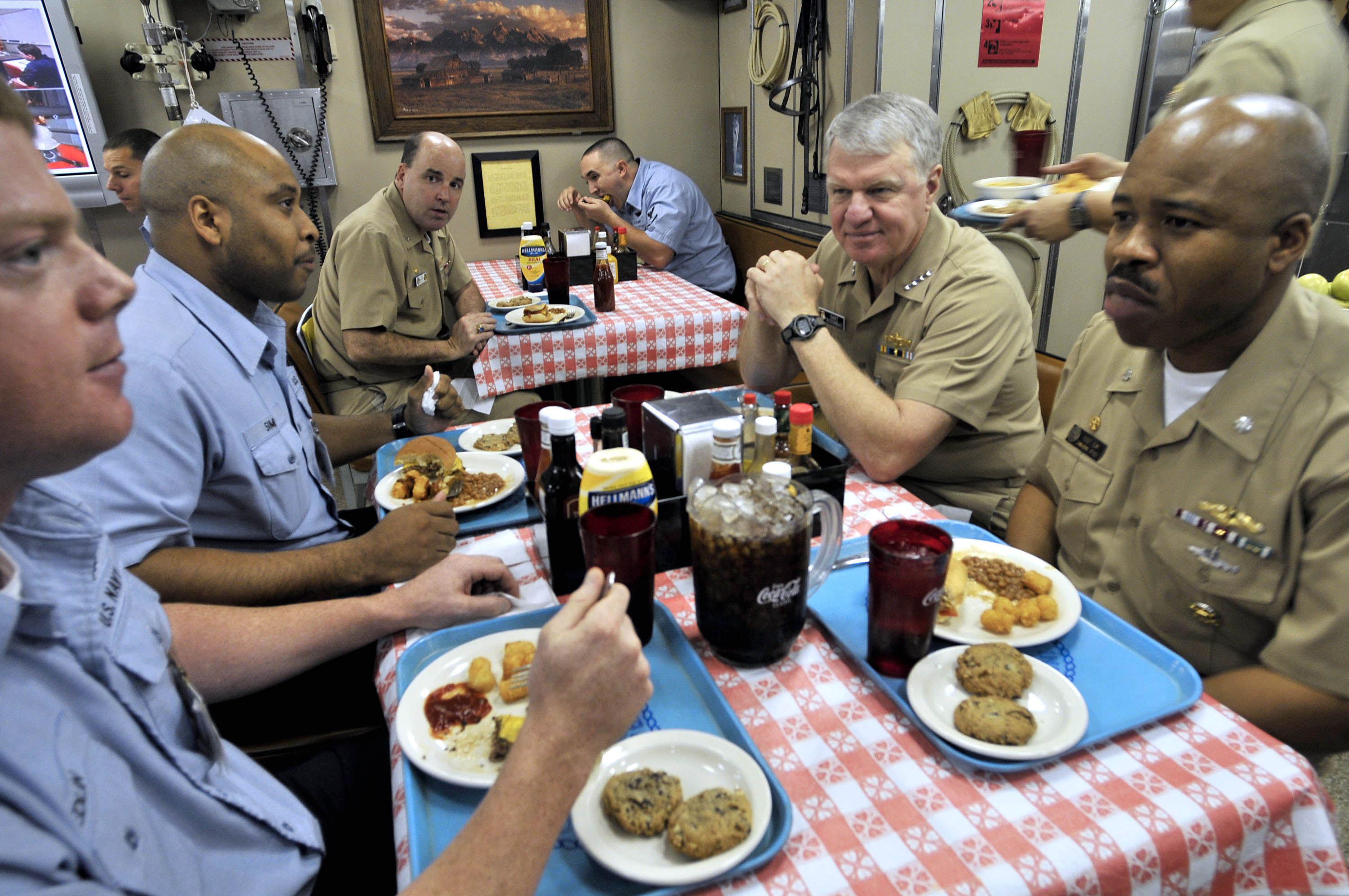 KINGS BAY, Ga. (Feb. 19, 2009) Chief of Naval Operations (CNO) Adm. Gary Roughead has lunch with Missile Technician 2nd Class Matthew Edlin, left, Electronics Technician 1st Class Sterling Sims, and Cmdr. Roger Isom, commanding officer of the Gold crew of the, ballistic-missile submarine, USS Wyoming (SSBN 742). Roughead is in Naval Region Southeast to attend the commemoration ceremony for the 1000th Trident patrol and to visit various naval facilities to get a first-hand look at the work being done by Sailors and Navy civilians in the region. (U.S. Navy photo by Mass Communication Specialist 1st Class Tiffini M. Jones/Released)